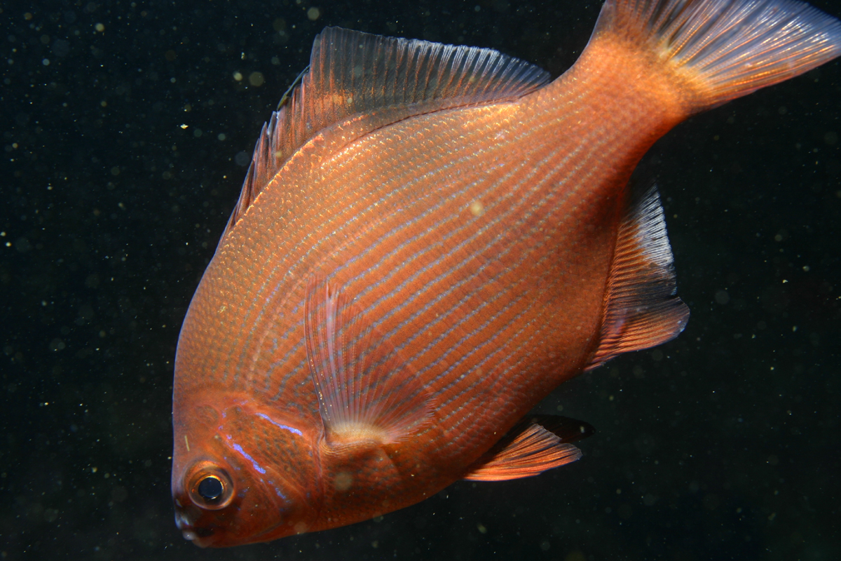 A juvenile striped perch (Embiotoca lateralis) has bright blue accents along the operculum.